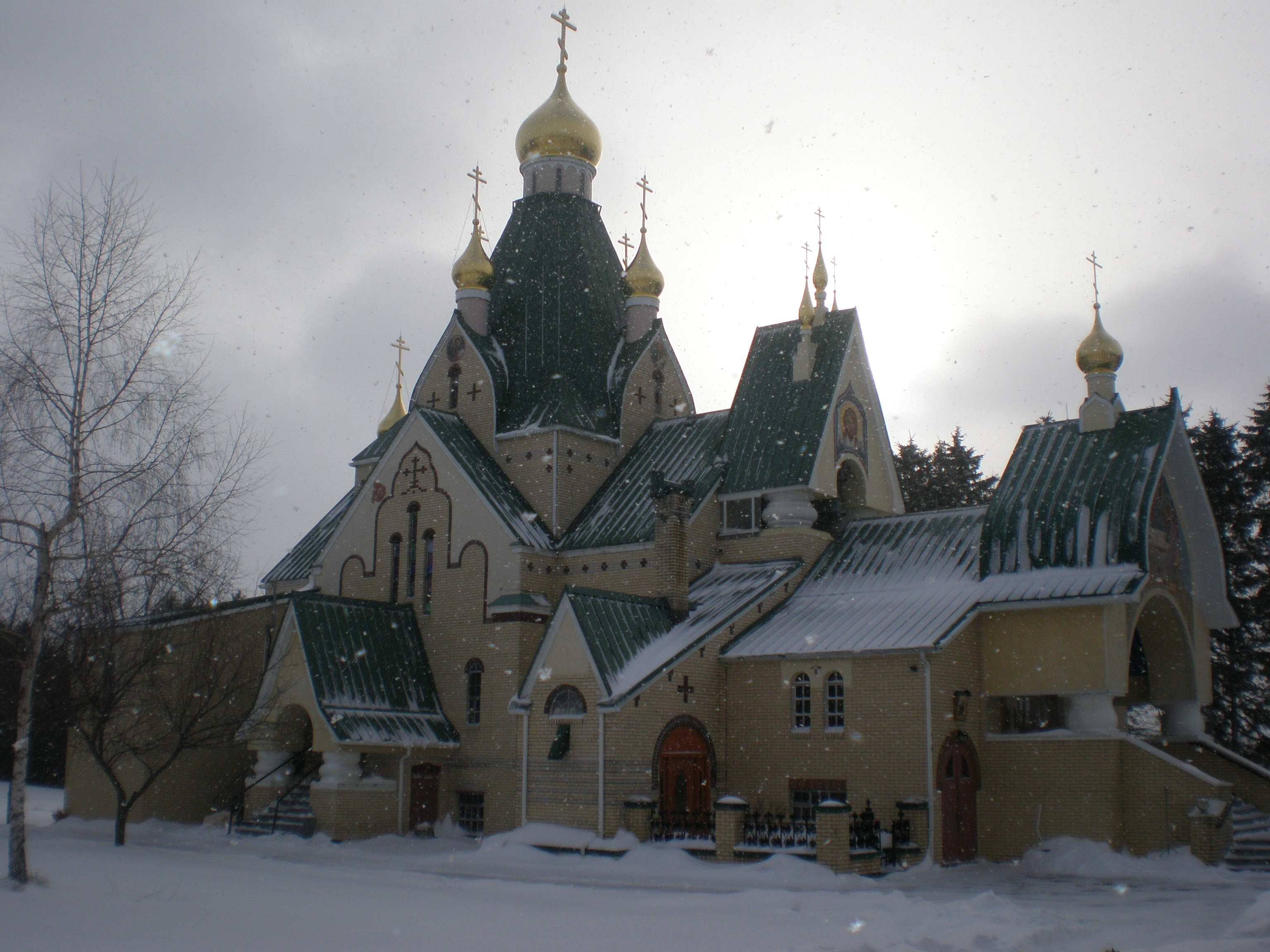 Holy Trinity Monastery in Jordanville, NY